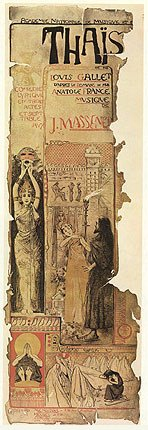 1895 poster for Jules Massenet's opera Thaïs